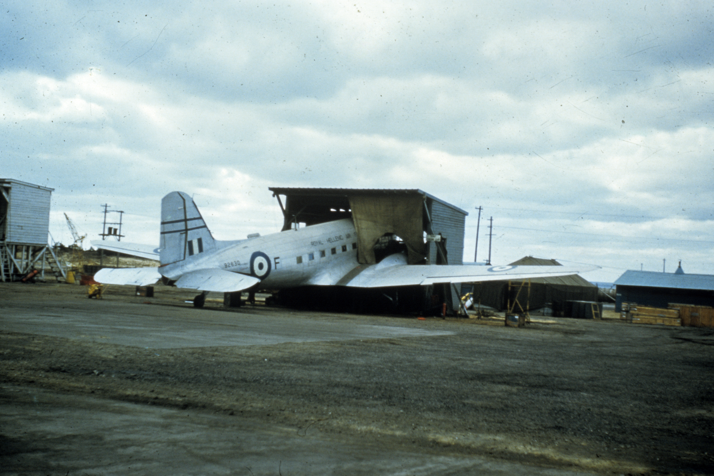 A C-47 (S/N 92630) of the Royal Hellenic Air Force at Anyang, South Korea during the war.